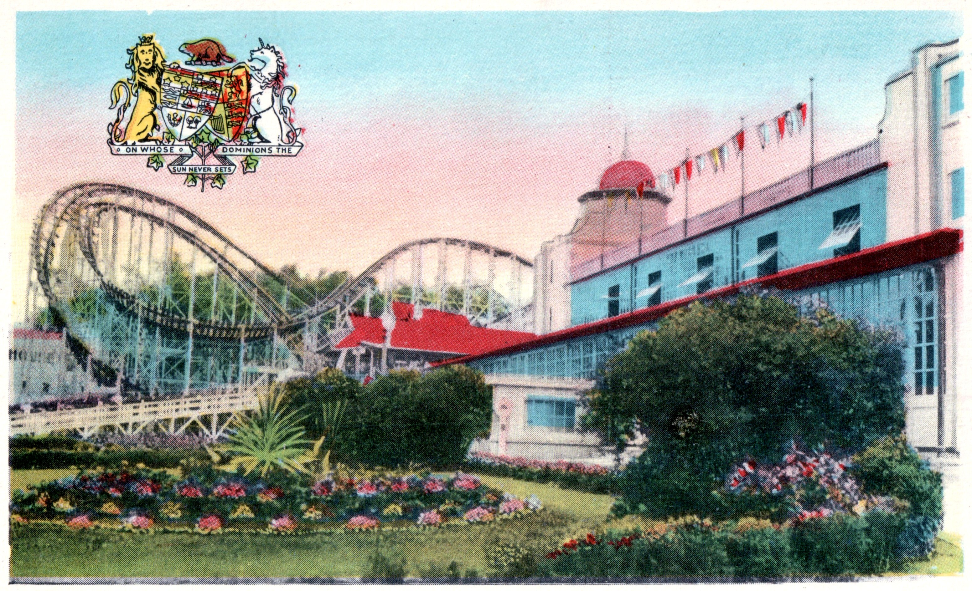 Cropped image from a postcard of the Cyclone roller coaster and the Crystal Ball Room at Crystal Beach, Ontario.